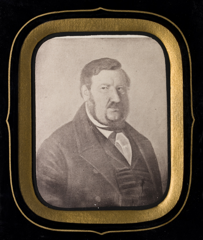 Portrait of the Swedish poet and writer Wilhelm von Braun (1813-1860). Daguerreotype, photographer unknown. Item no. 82650. Reproduction photo: Mats Landin, Nordiska museet.